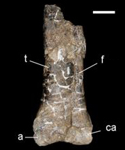 Distal articulated tibia, fibula, astragalus and calcaneum of Eoabelisaurus (MPEF-Pv 3990; Museo Paleontológico ‘Egidio Feruglio’, Trelew, Argentina). Scale bar: 5 cm.